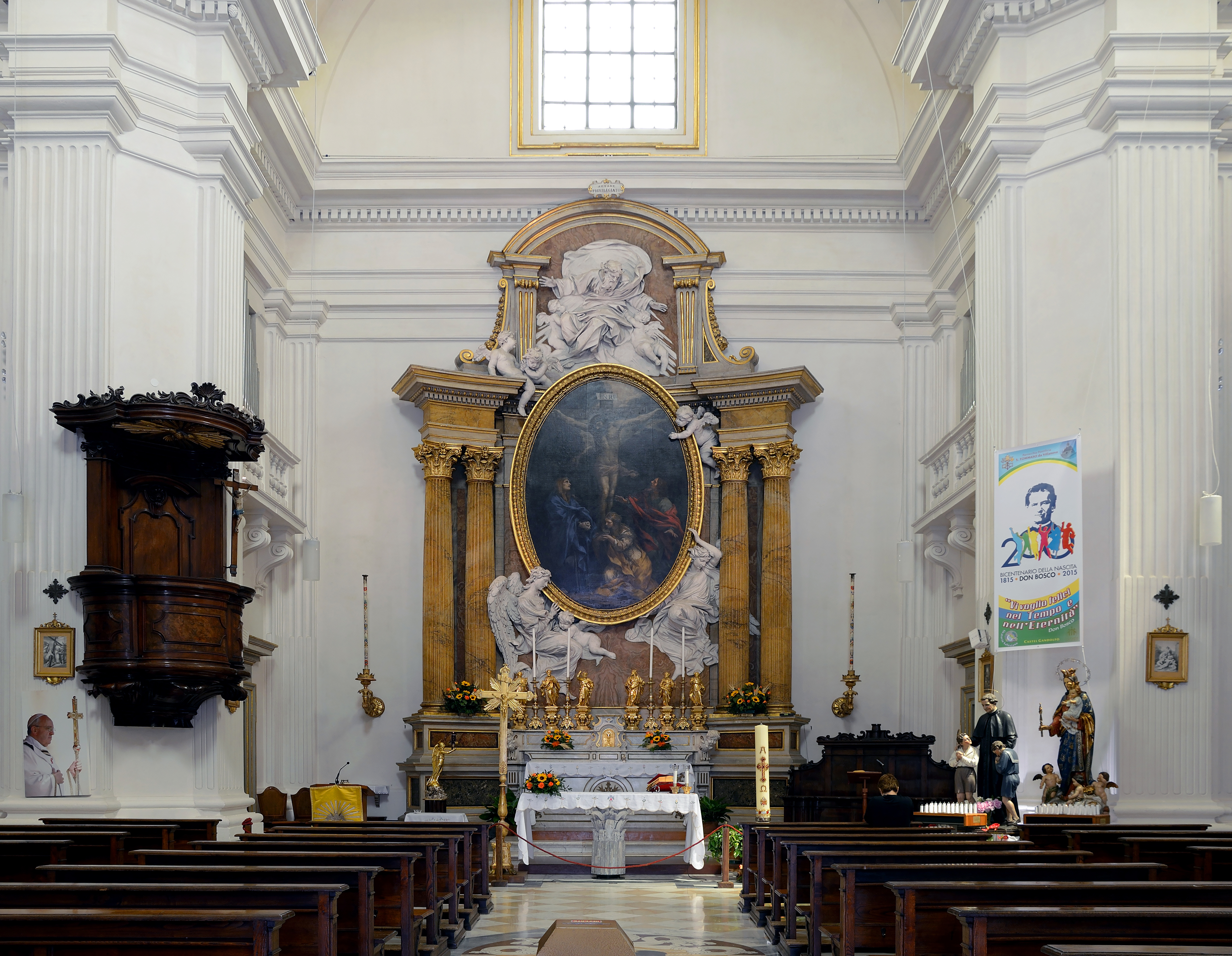 Church of Thomas of Villanova by Gianlorenzo Bernini